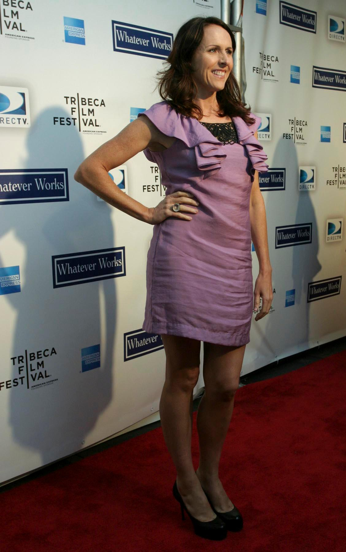 Molly Shannon – Tribeca Film Festival "Whatever Works" Premiere.